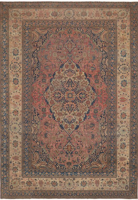 "Motasham Kashan" floral carpet, 7-6 x 10-5, ca 1825